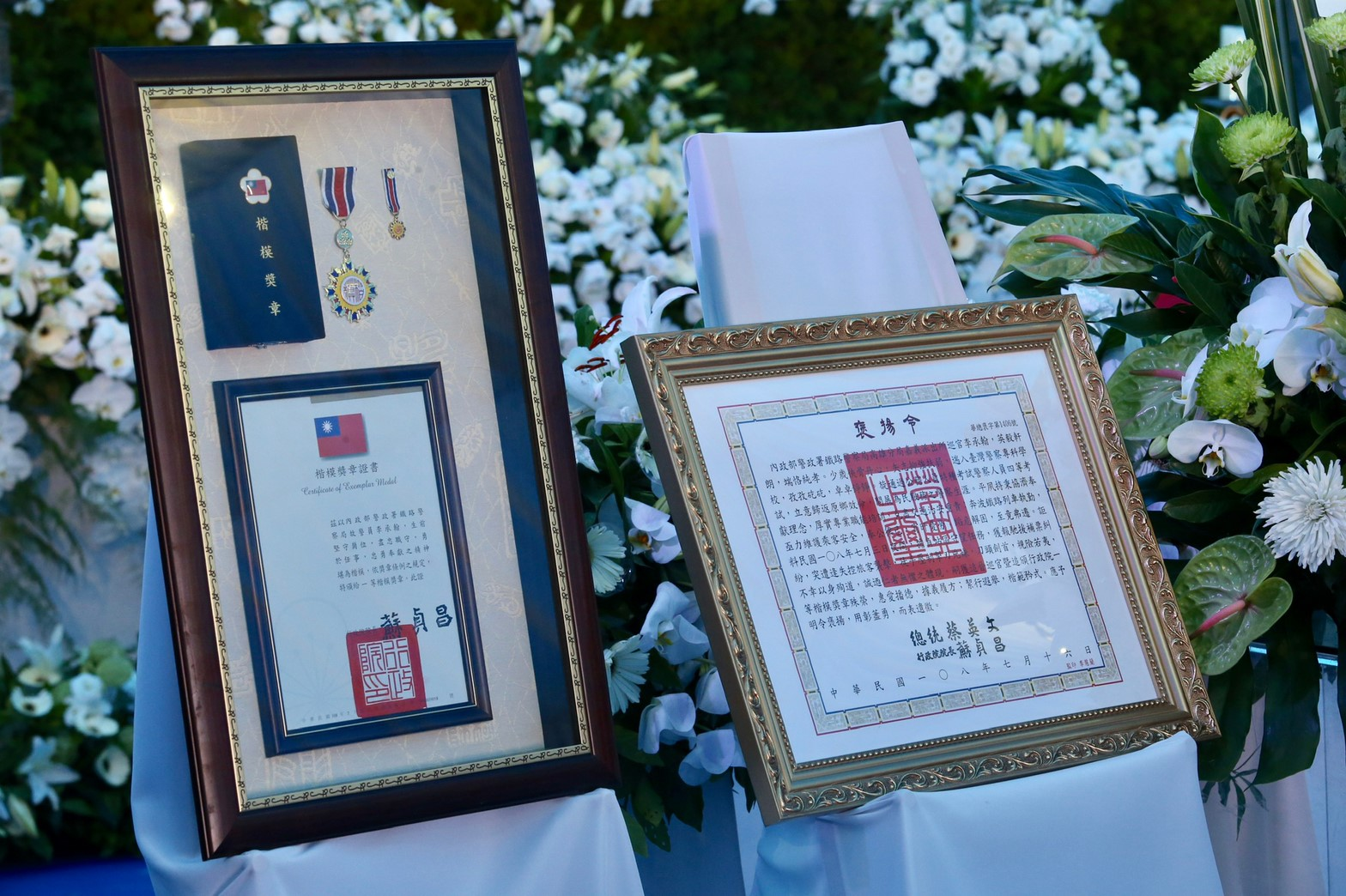 Official Photo by Simon Liu / Office of the President